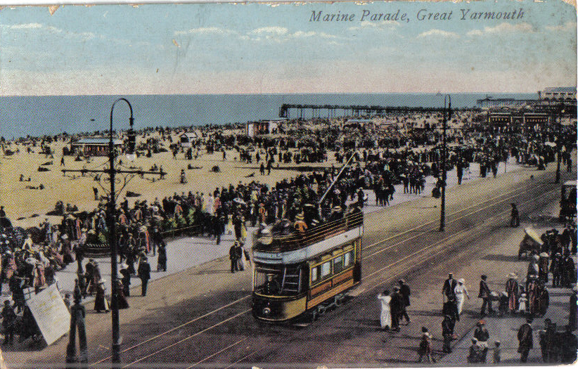 Great Yarmouth Corporation Tramways tramcar on Marine Parade ca. 1920